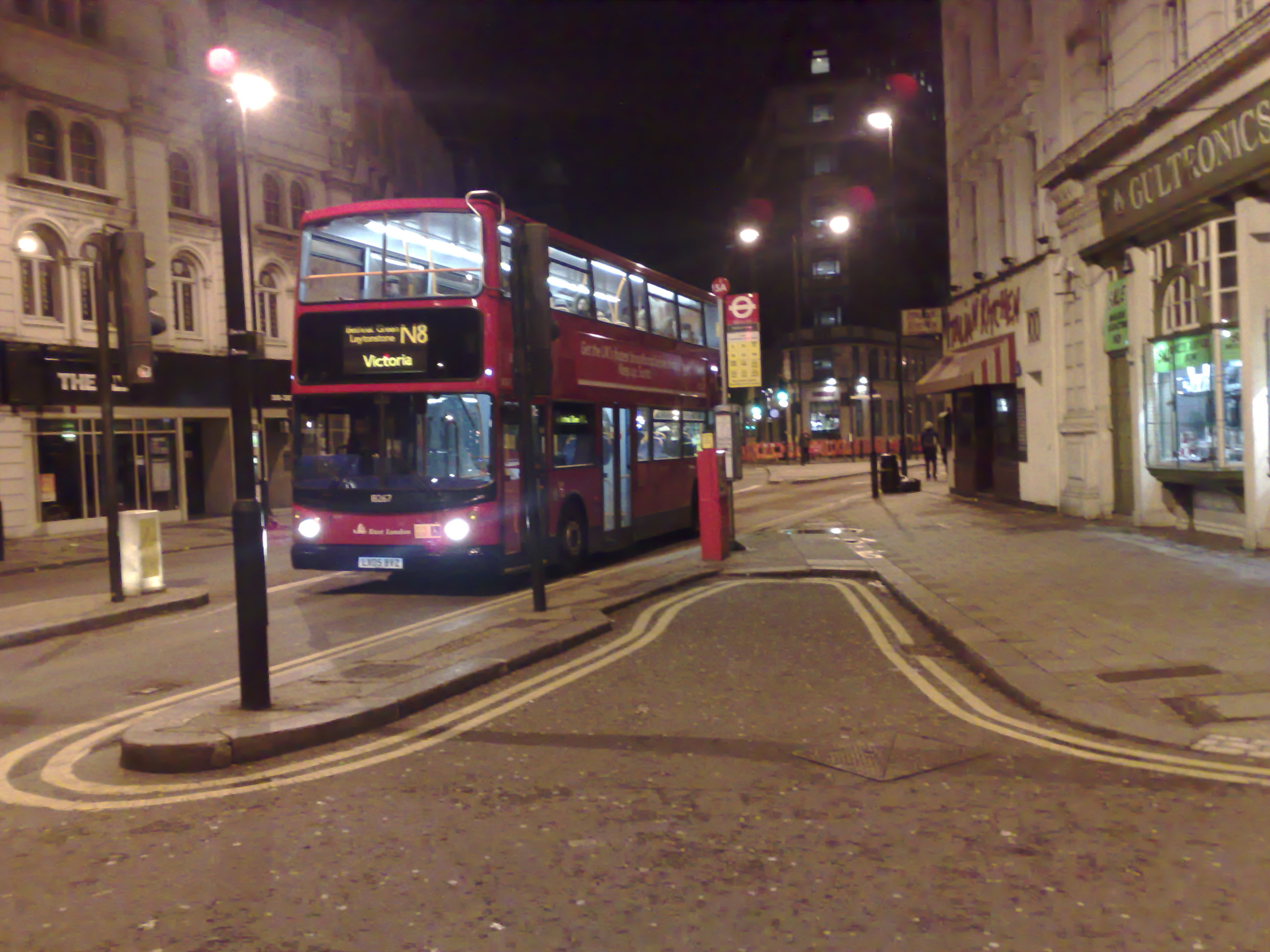 Night bus in central London